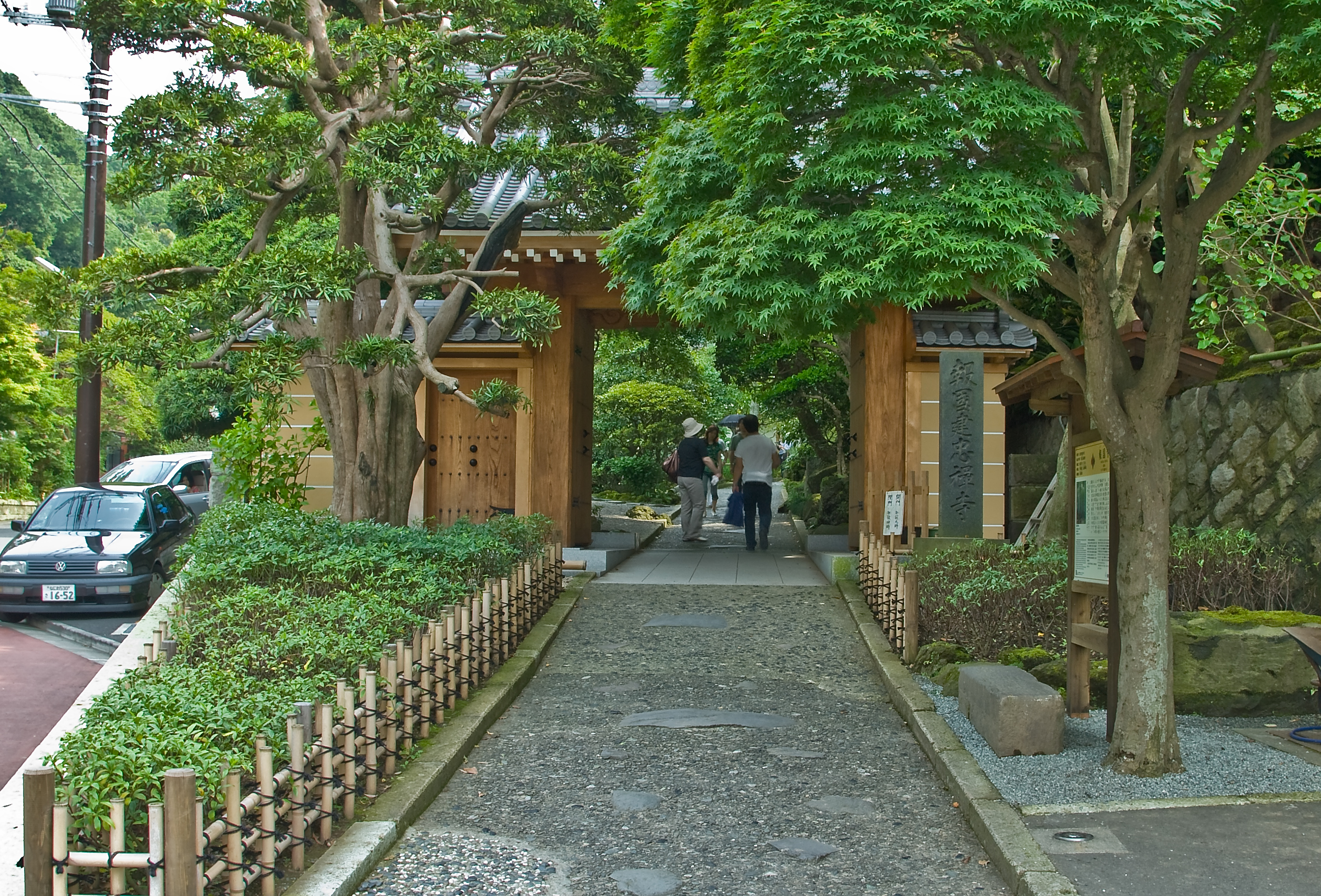 The gate of Hōkohu-ji, also called Take-dera, in Kamakura